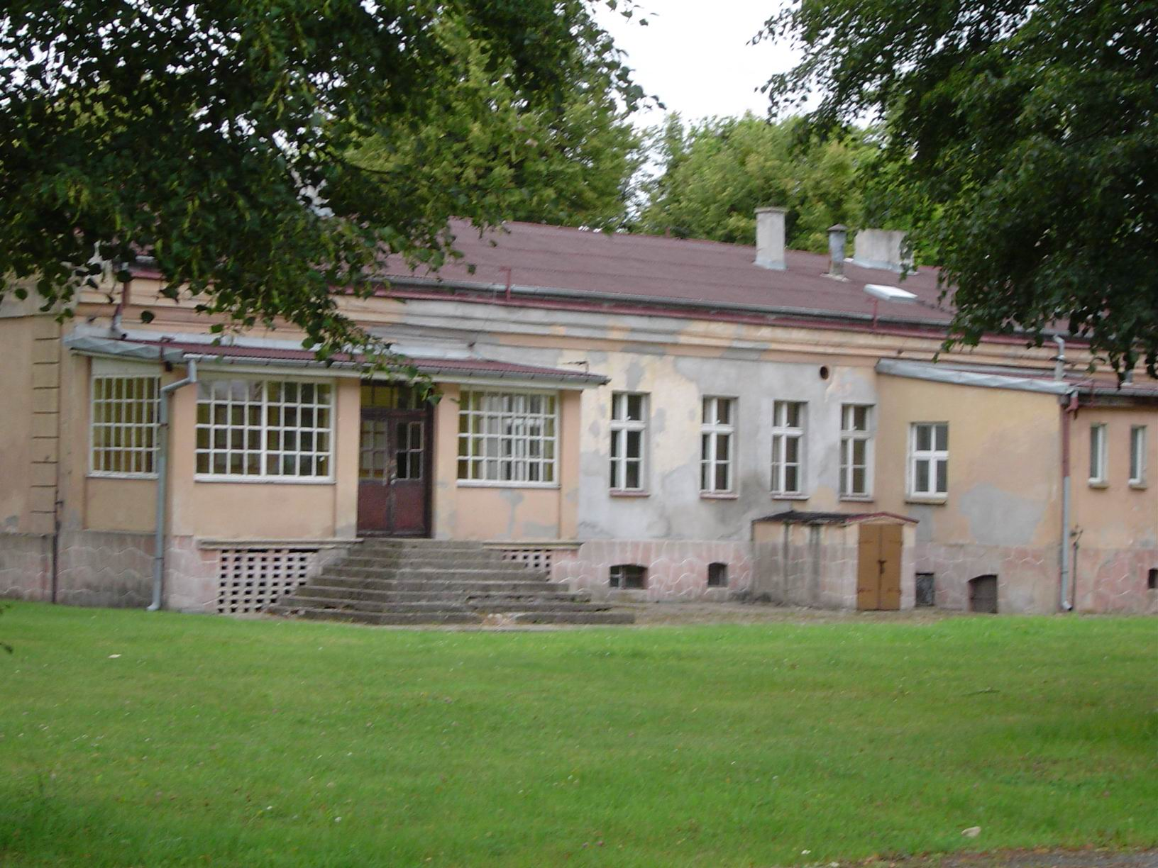 House of G. R. baron Courbiere in Grudziądz